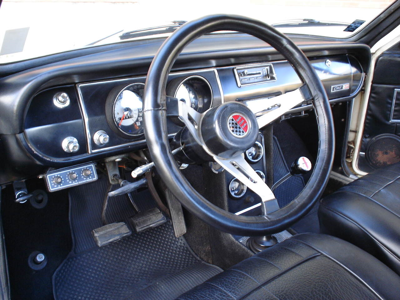 Photo of the interior of a 1973 Ford Corcel GT.